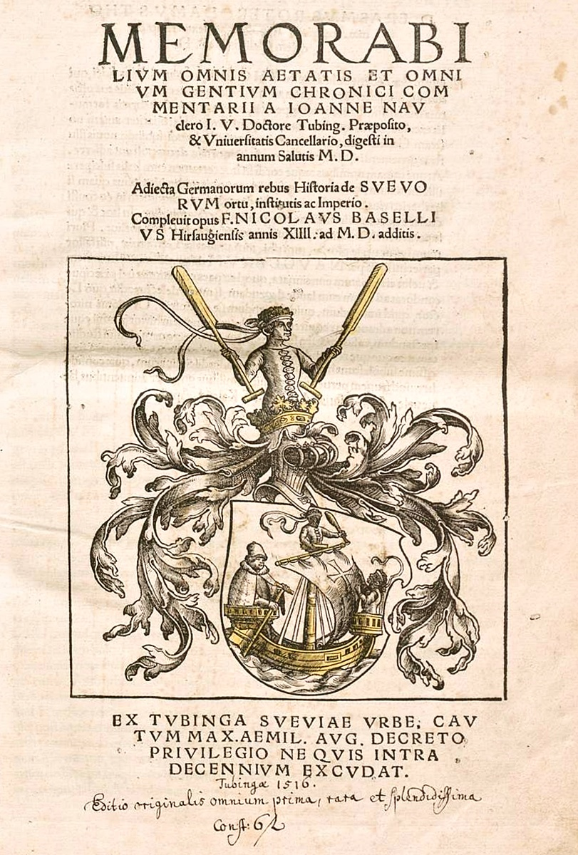 Titelblatt der von Nikolaus Basellius 1516 publizierten Weltchronik des Johannes Nauclerus (+ 1510)